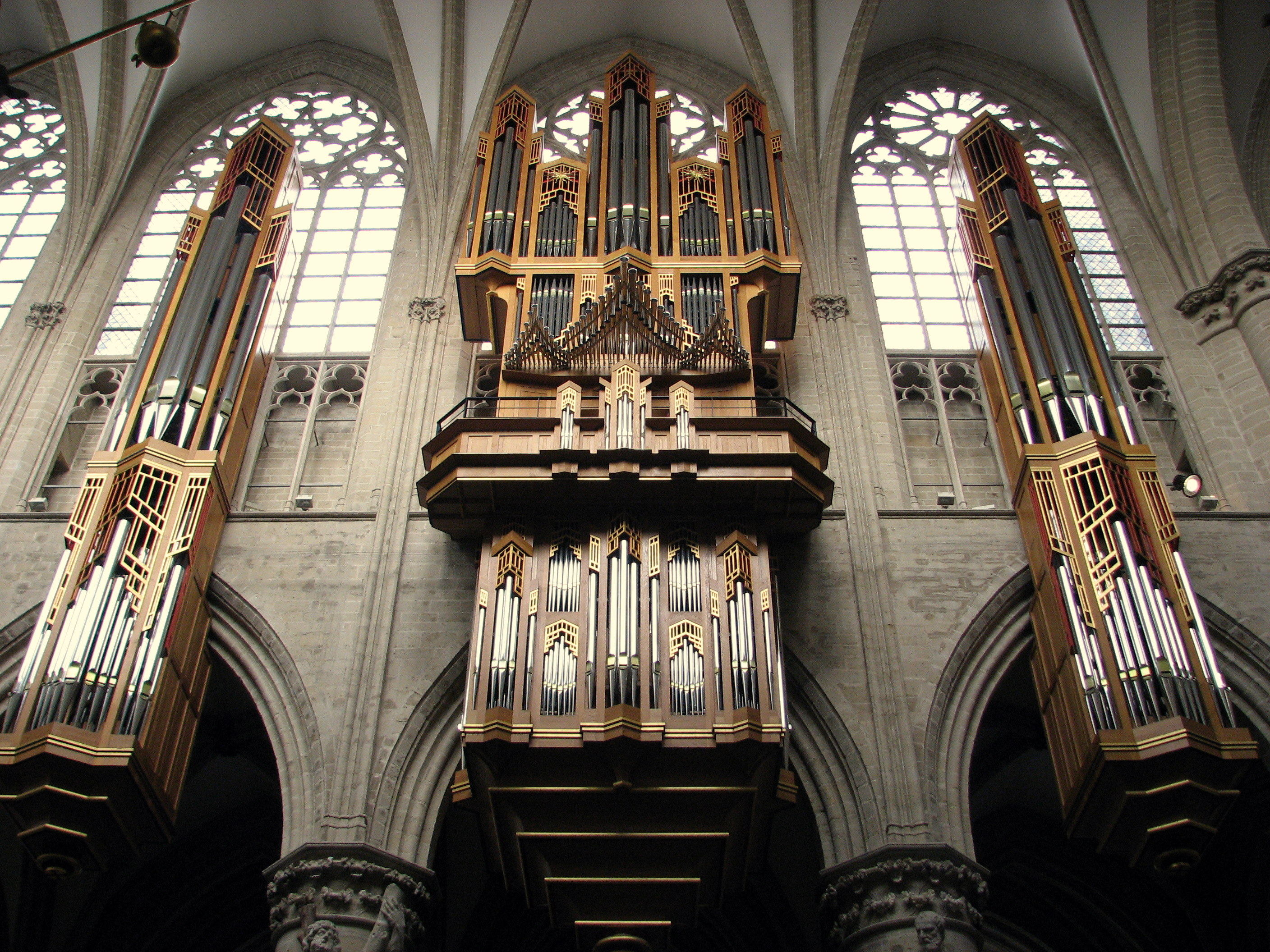 Grenzing Organ in the St. Michael and Gudula Cathedral Brussels